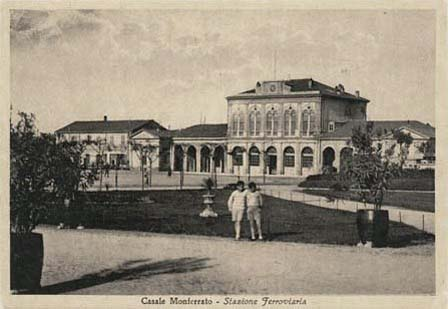 Casale Monferrato railway station